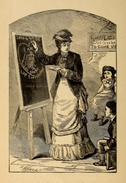 This illustration, signed "F. Beard," accompanies the preface of "Chalk Lessons, or the Black-board in the Sunday School. A Practical Guide for Superintendents and Teachers" by Frank Beard (1896). It demonstrates what Beard argues are the possibilities for enhancing teaching through the use of the "Black-board" to illustrate lesson points. A Victorian motto hangs on the wall: "Suffer little children, and forbid them not, to come unto me."